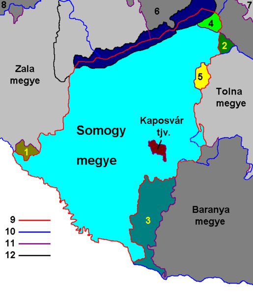 Somogy Counti from 1950.